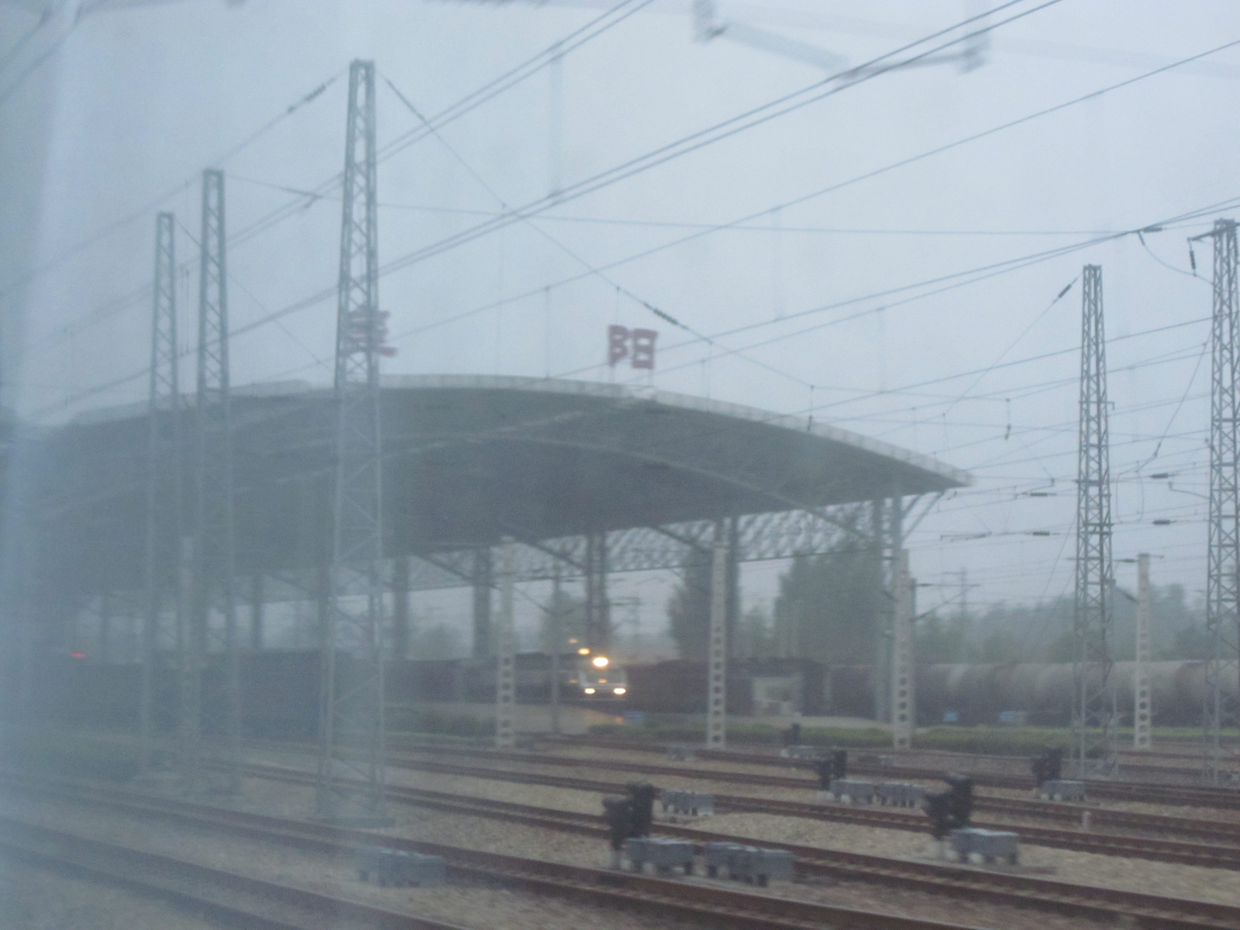 阜陽站咽喉